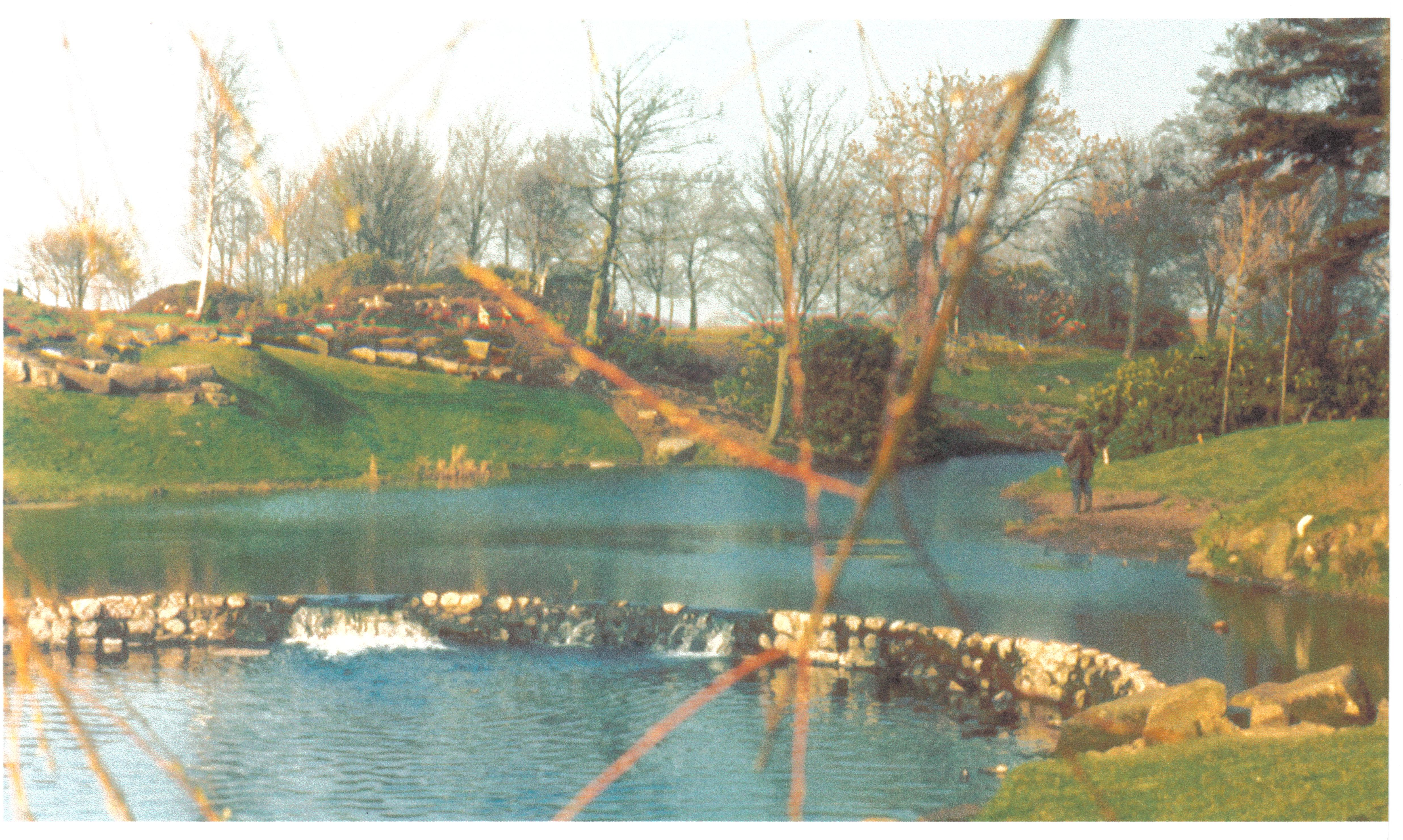 The Yew Tree weir on the Lugton Water.